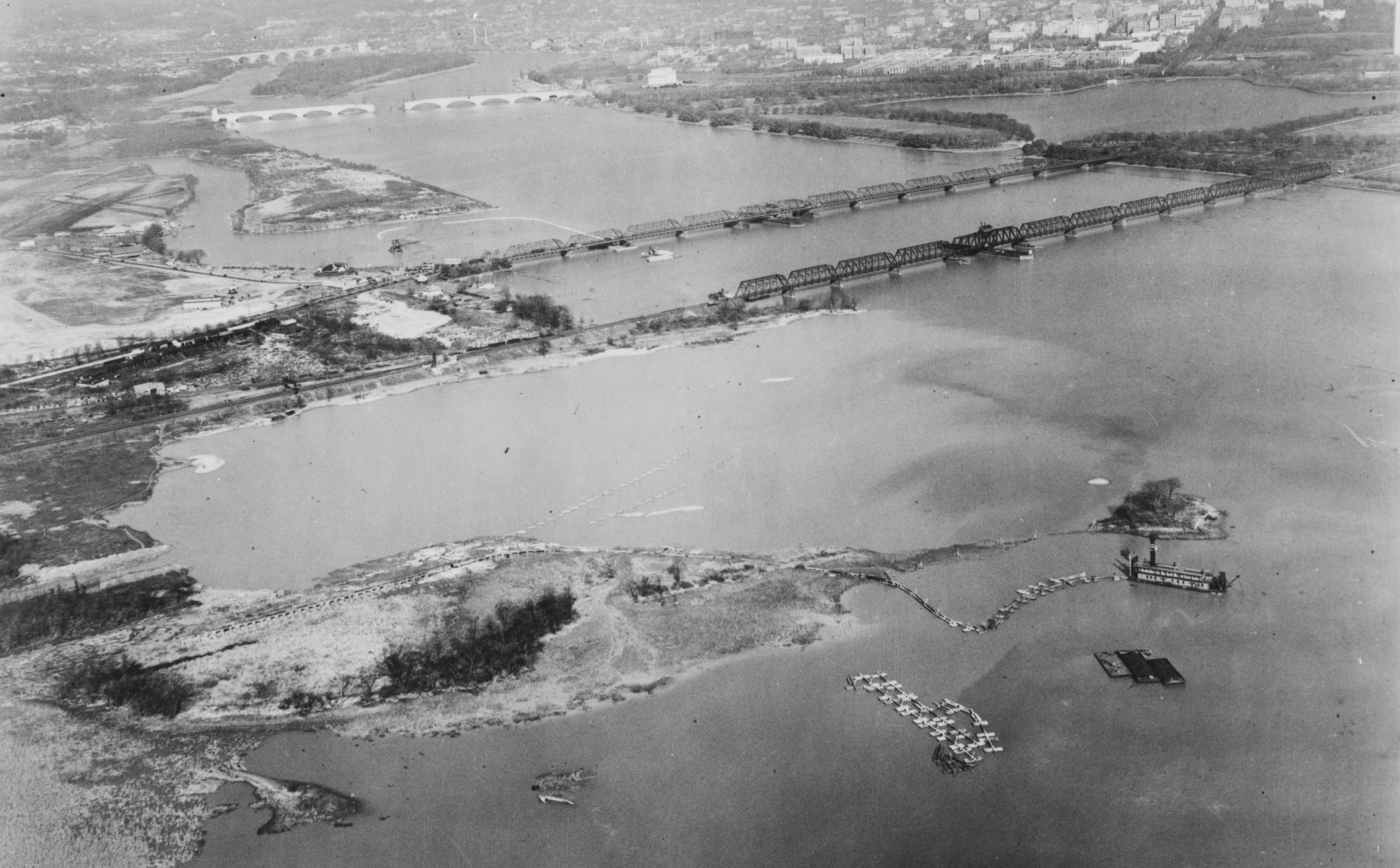 Dredging operations in the Potomac River in Washington, D.C., in the United States in 1930. The double-bridge in the center is the Highway Bridge (later replaced, and today known as the 14th Street Bridges). Boot-shaped Columbia Island, Arlington Memorial Bridge, Theodore Roosevelt Island, and Francis Scott Key Bridge are visible upstream (to the left and top of the image). Note the pontoons between Columbia Island the north span of Highway Bridge, middle left. They indicate the area to be filled with dredged material from the Potomac River to create what will eventually be called the Pentagon Lagoon, and to narrow the outlet from Boundary Channel to the Potomac River. This will also allow the Mount Vernon Memorial Parkway (later named the George Washington Memorial Parkway) to be built along the axis of Columbia Island, cross the outlet channel, and proceed south below the soon-to-be-replaced Highway Bridge. Note the parallel pontoons in the lagoon south of Highway Bridge. They indicate where dredged material from the Potomac River will be placed to allow the parkway to continue south. The lagoon is the wide mouth of Roaches Run, a creek in Virginia. A large dredge can be seen tied up at the pier near the spit of land extending into the Potomac River. Several barges (to hold the material dredged up) are also nearby.